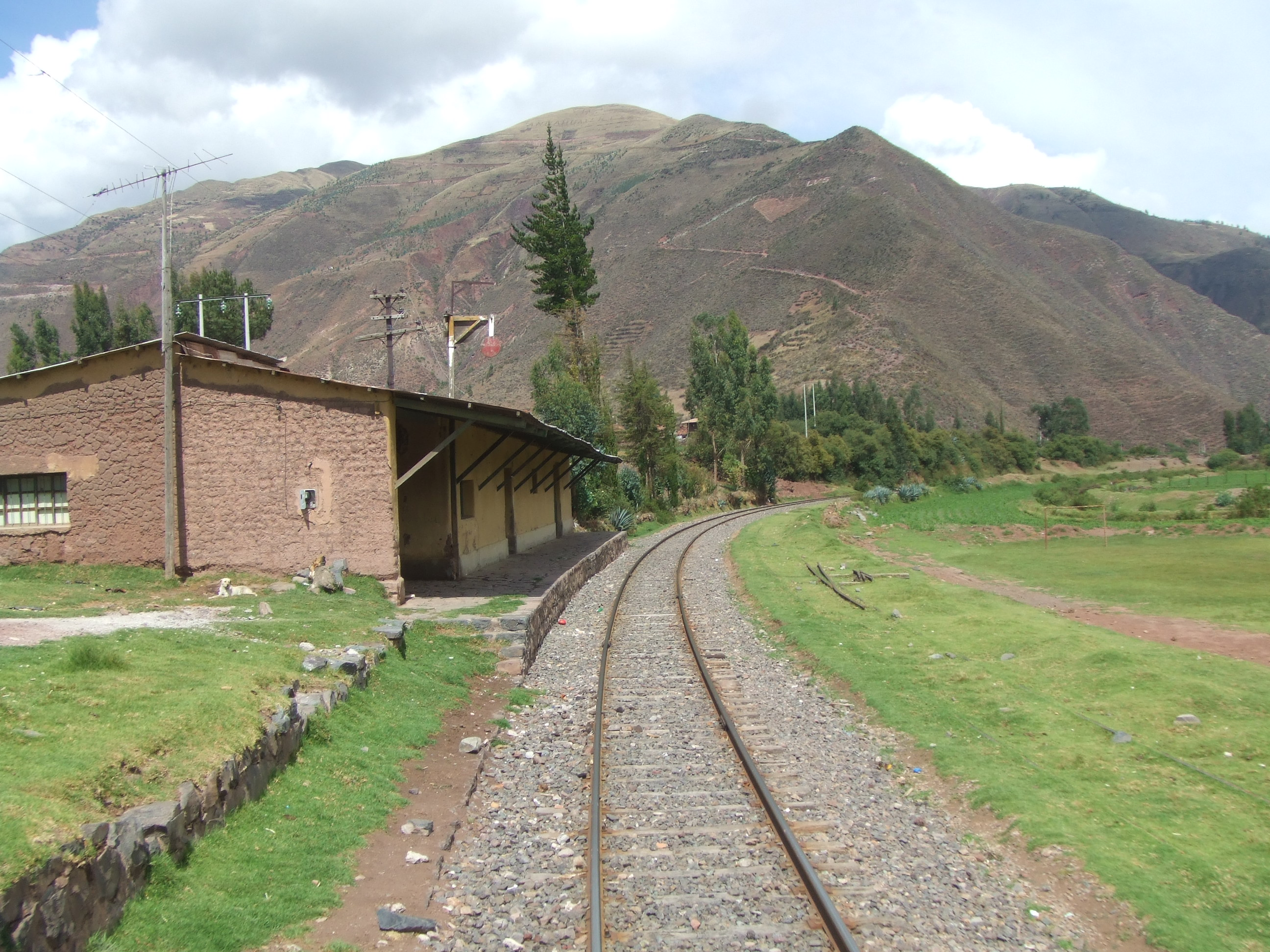 A station in the Vilacanota Valley, from "The Andean" observation car, 10/07.